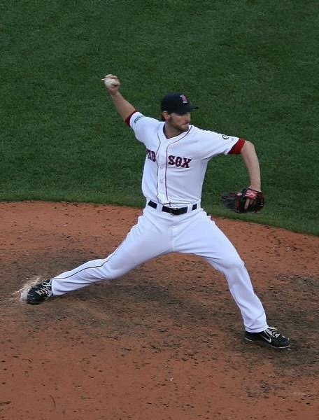 Chris Carpenter pitching for the Boston Red Sox